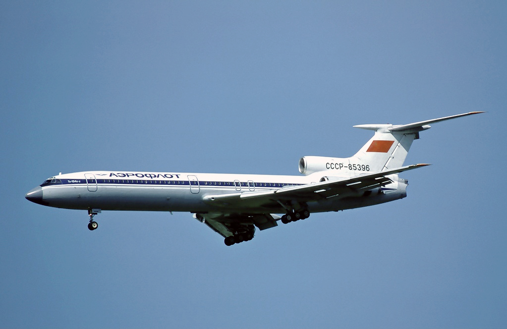 An Aeroflot Tupolev Tu-154B-2 at Zürich Airport (ZRH / LSZH)